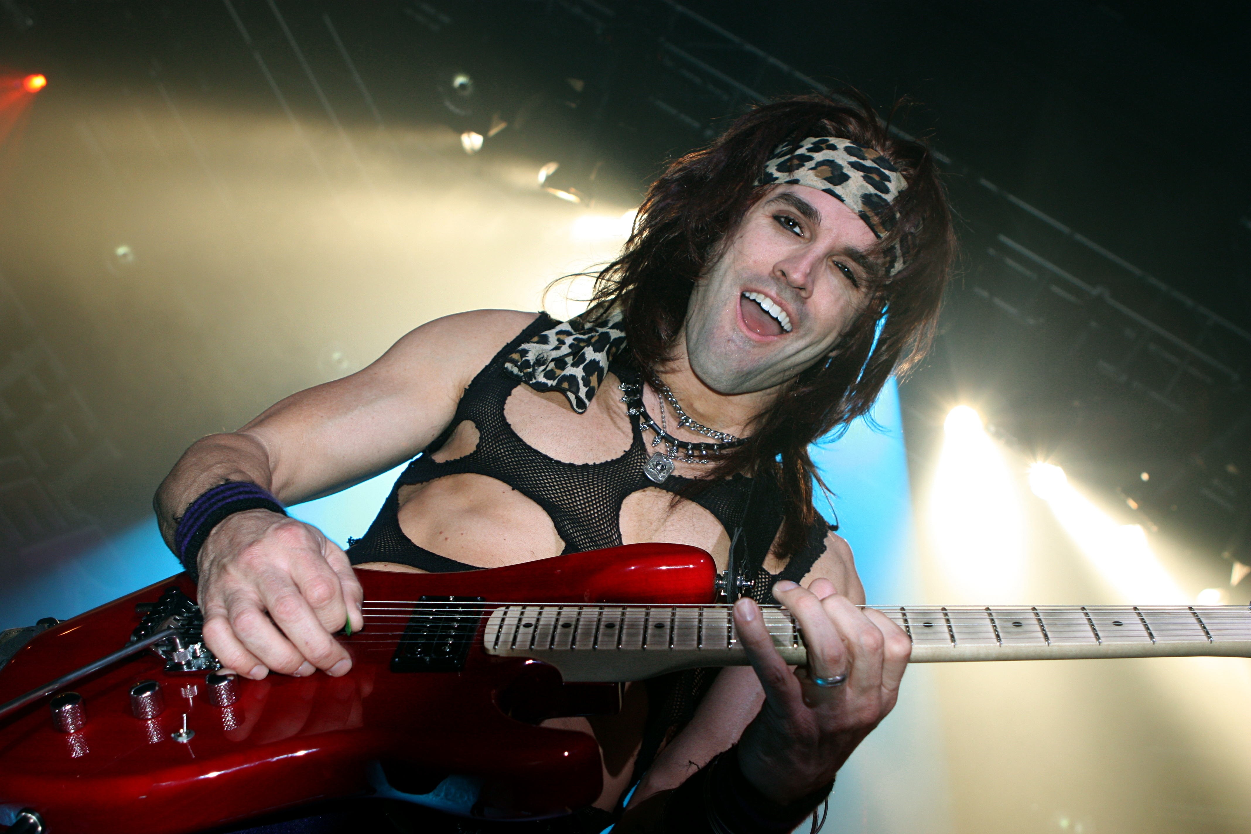 Russ Parrish performing with Steel Panther in Las Vegas on February 20, 2009.